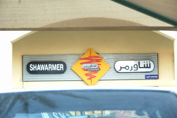 1st branch